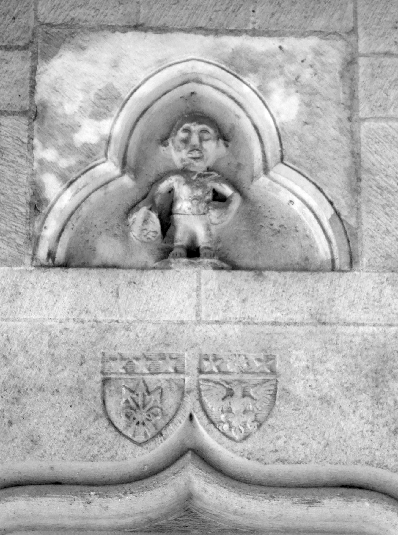 Dijon, Burgundy, France